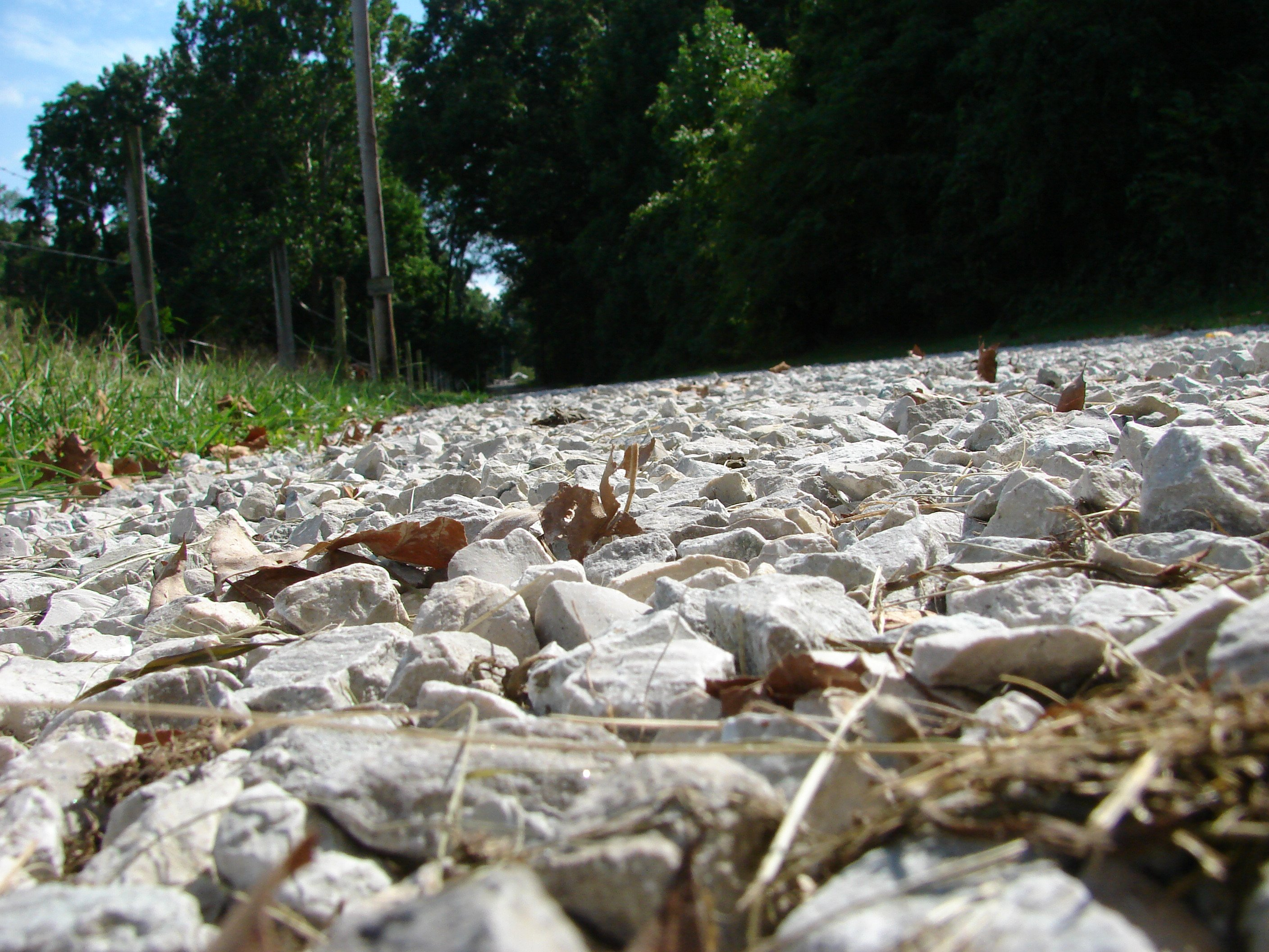 Picture taken by me in September, 2006.